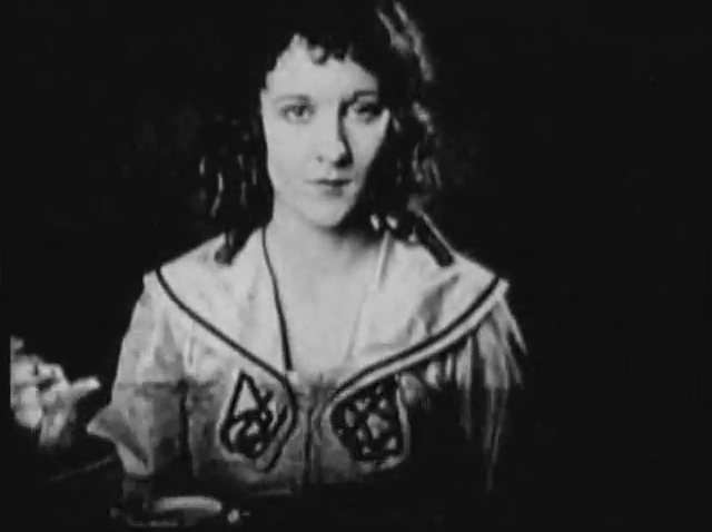 Carol Dempster in Scarlet Days (1919).